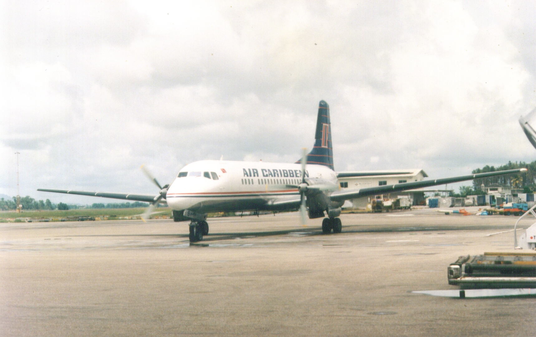 YS-11A-500 Taxing out of the ramp at Piarco International, Trinidad